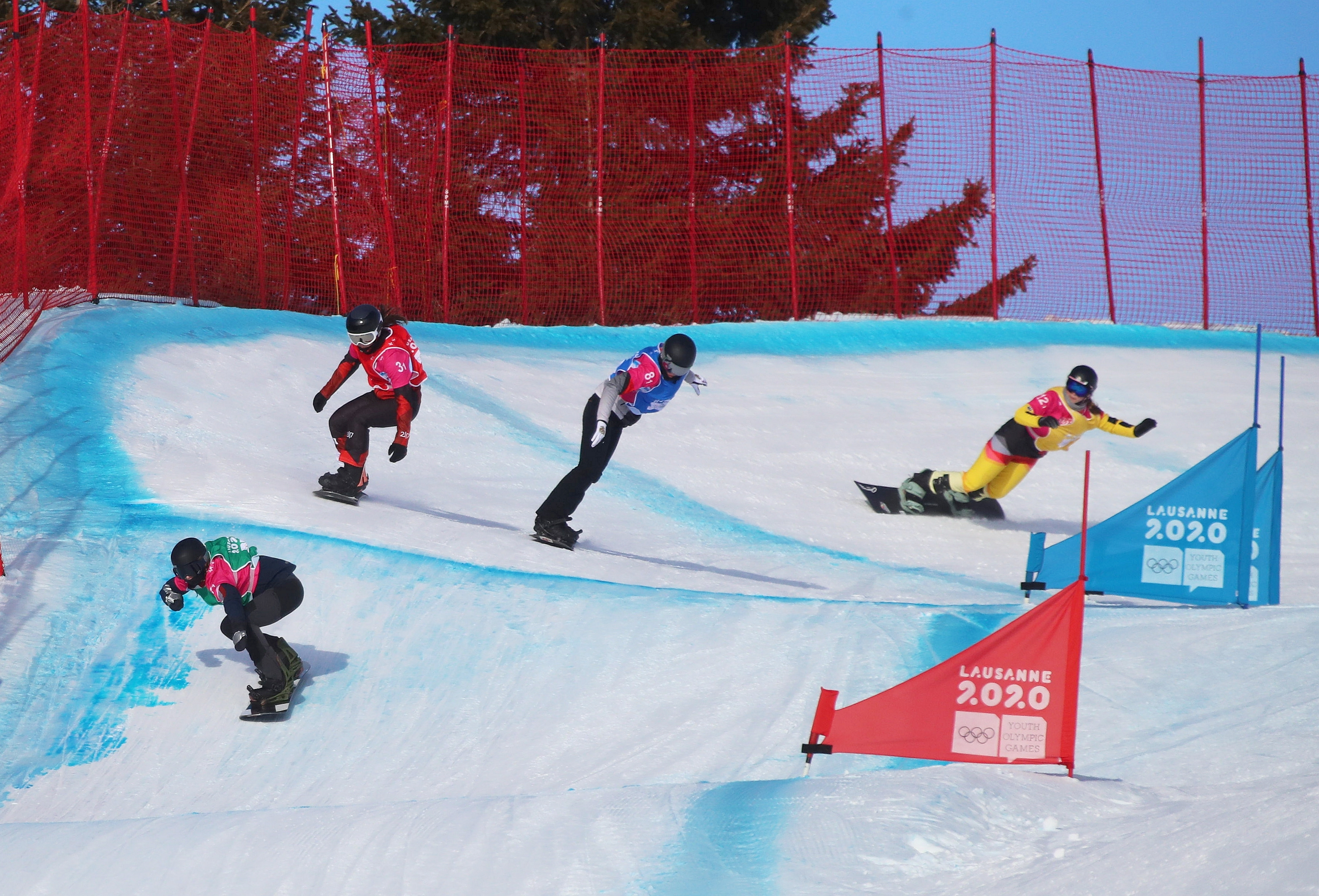 Big Final of Freestyle skiing – Snowboarding – Team Ski-Snowboard Cross at the 2020 Winter Youth Olympics in Lausanne on 21 January 2020.